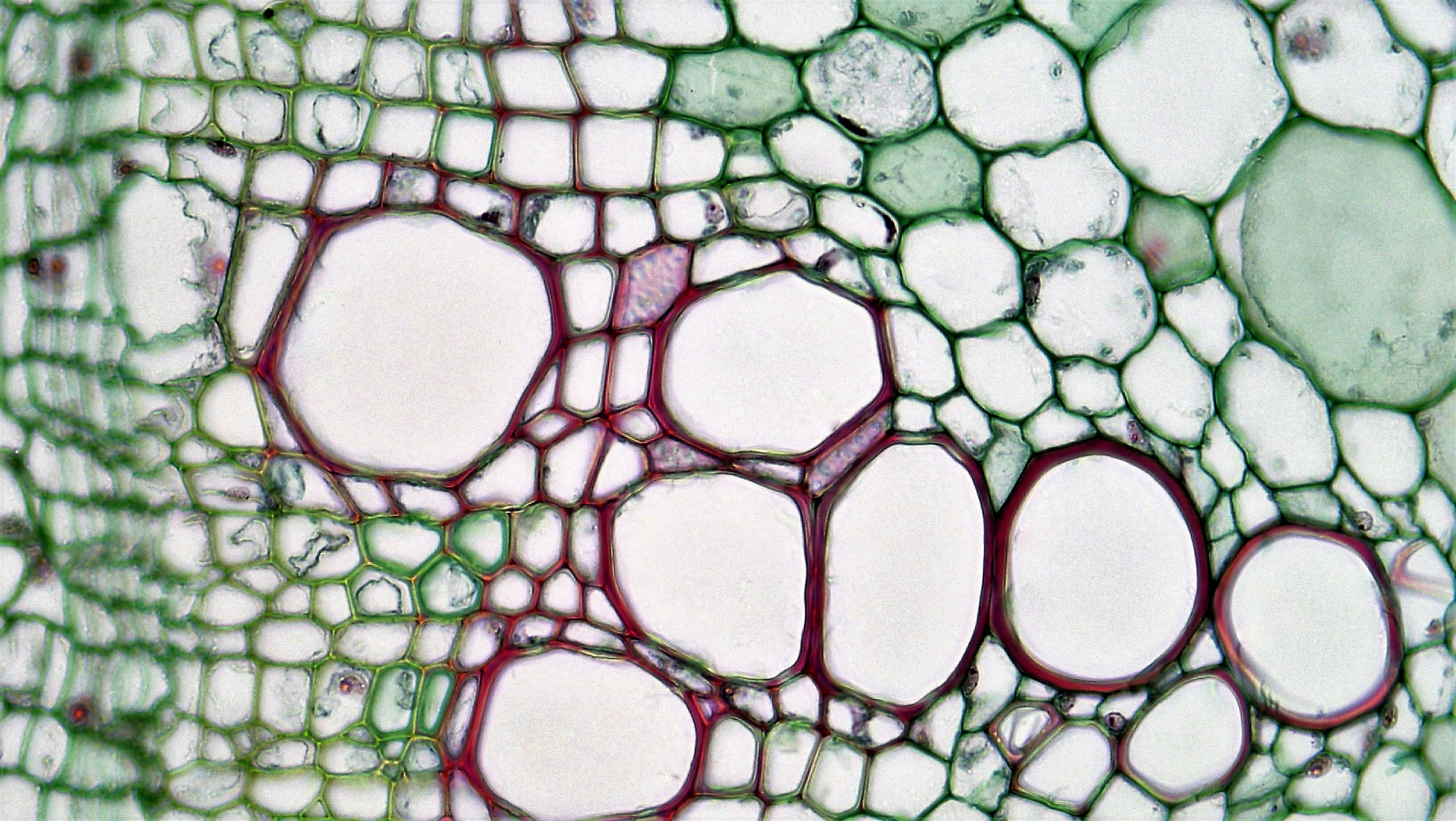 cross section: Richinus stem magnification: 400x Xylem is endarch with protoxylem found towards center of stem and younger metaxylem towards the periphery of the stem. Phloem is endarch but modest annual growth makes it difficult to distinguish between the older protophloem at the periphery and younger metapholem to the center of the stem. .